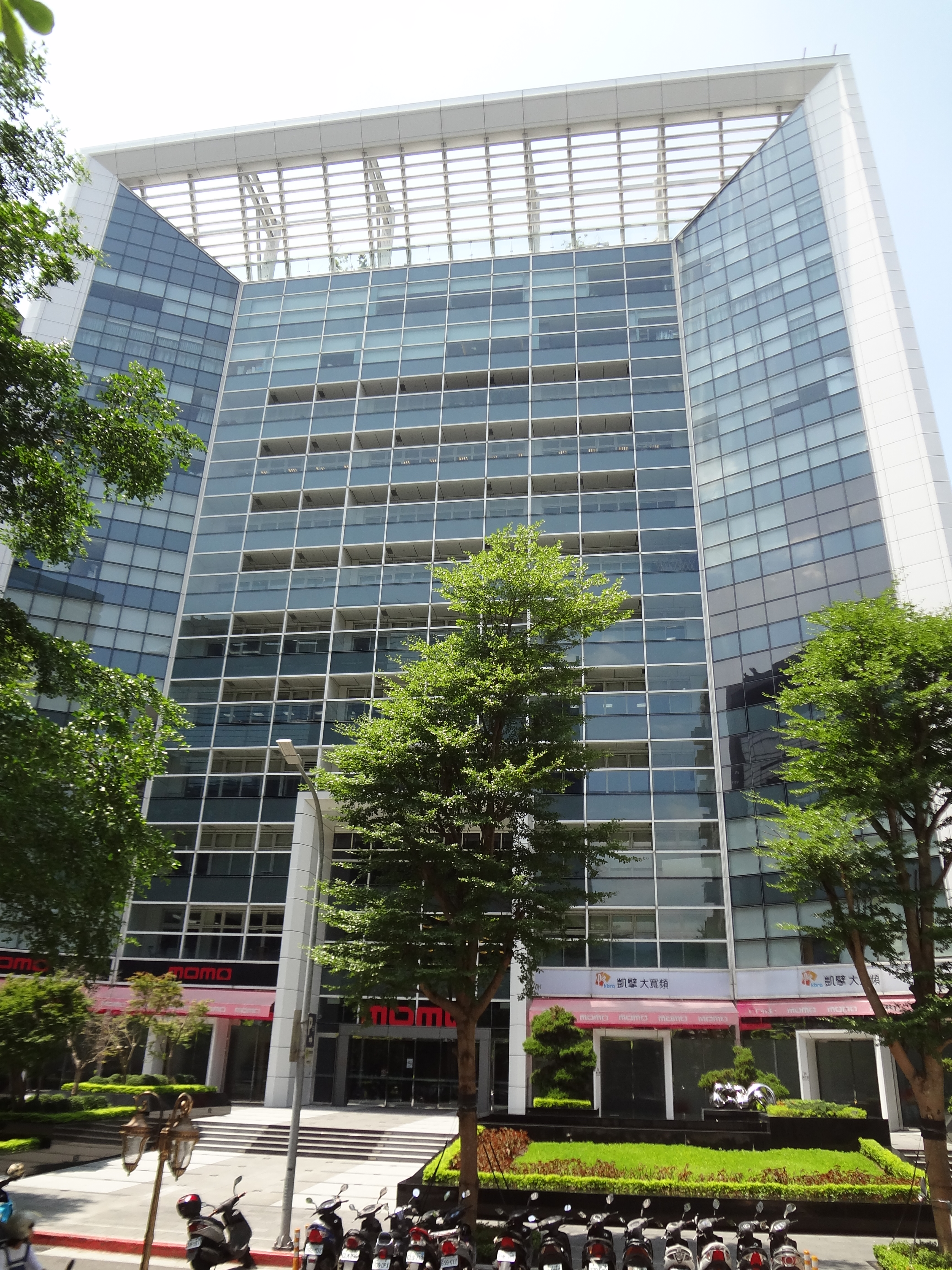 Fubon Momo Building, the headquarters of Fubon Multimedia Technology and kbro.